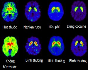 These PET brain scans show that that addicts have fewer than average dopamine receptors in their brains, so that weaker dopamine signals are sent between cells. |Source=